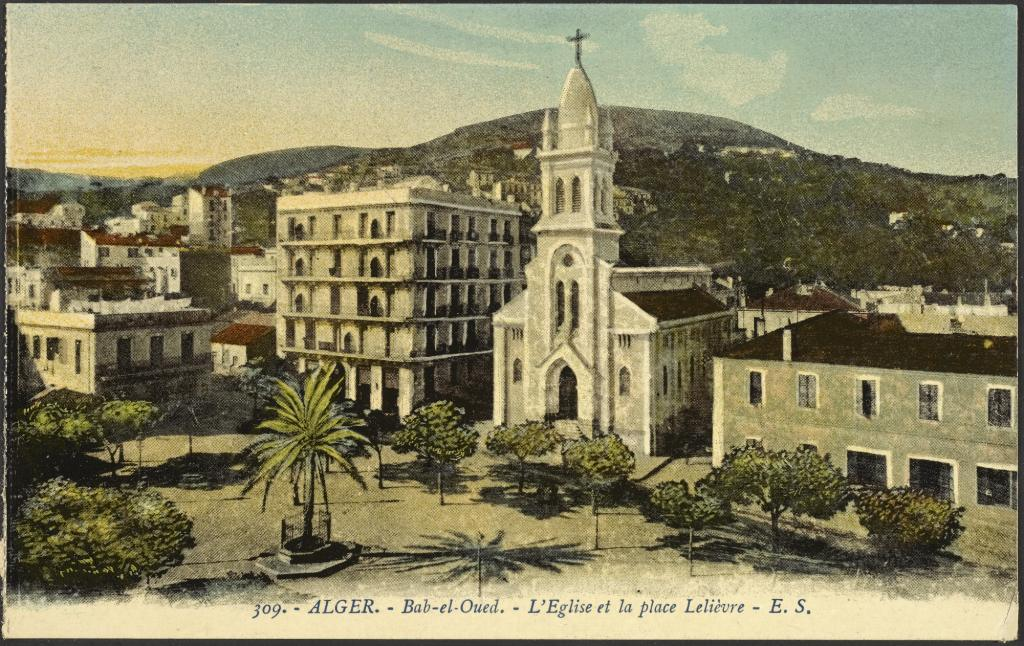 Postcard of Algiers, early 20th century Creator: E.S. Date: early 20th century Accession number: ZPC2 A1A4 Featured in the exhibition, Walls of Algiers: Narratives of the City , May 19 - October 18, 2009 at the Getty Research Institute. Part of the Cities and Sites Postcard collection in the Getty Research Institute Library's special collections. View the library record for this collection.